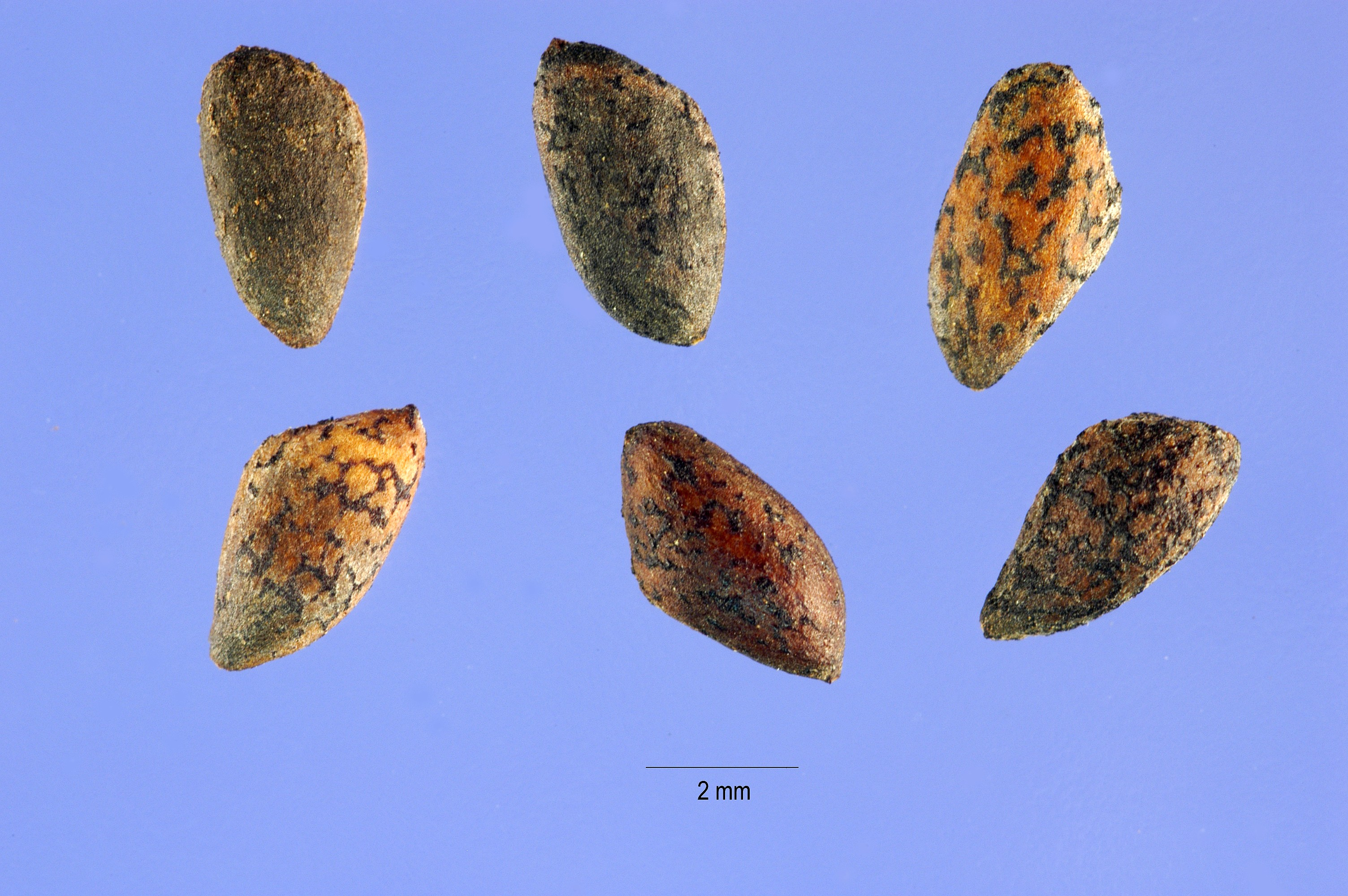 Seeds of the lodgepole pine (Pinus contorta)